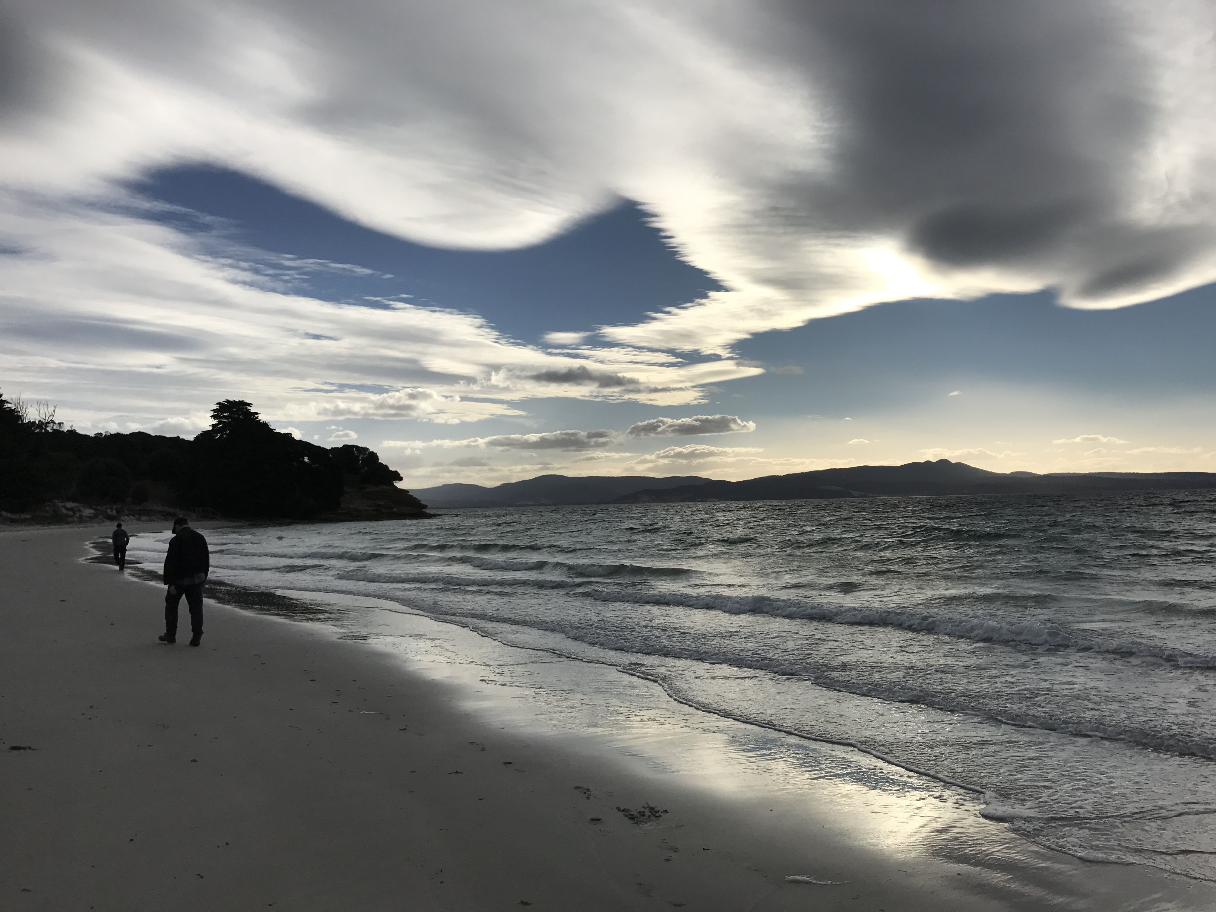 Beach photo